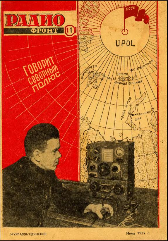 Ernst Krenkel on Radiofront cover, June 1937. UPOL is callsign of North Pole-1 drifting station